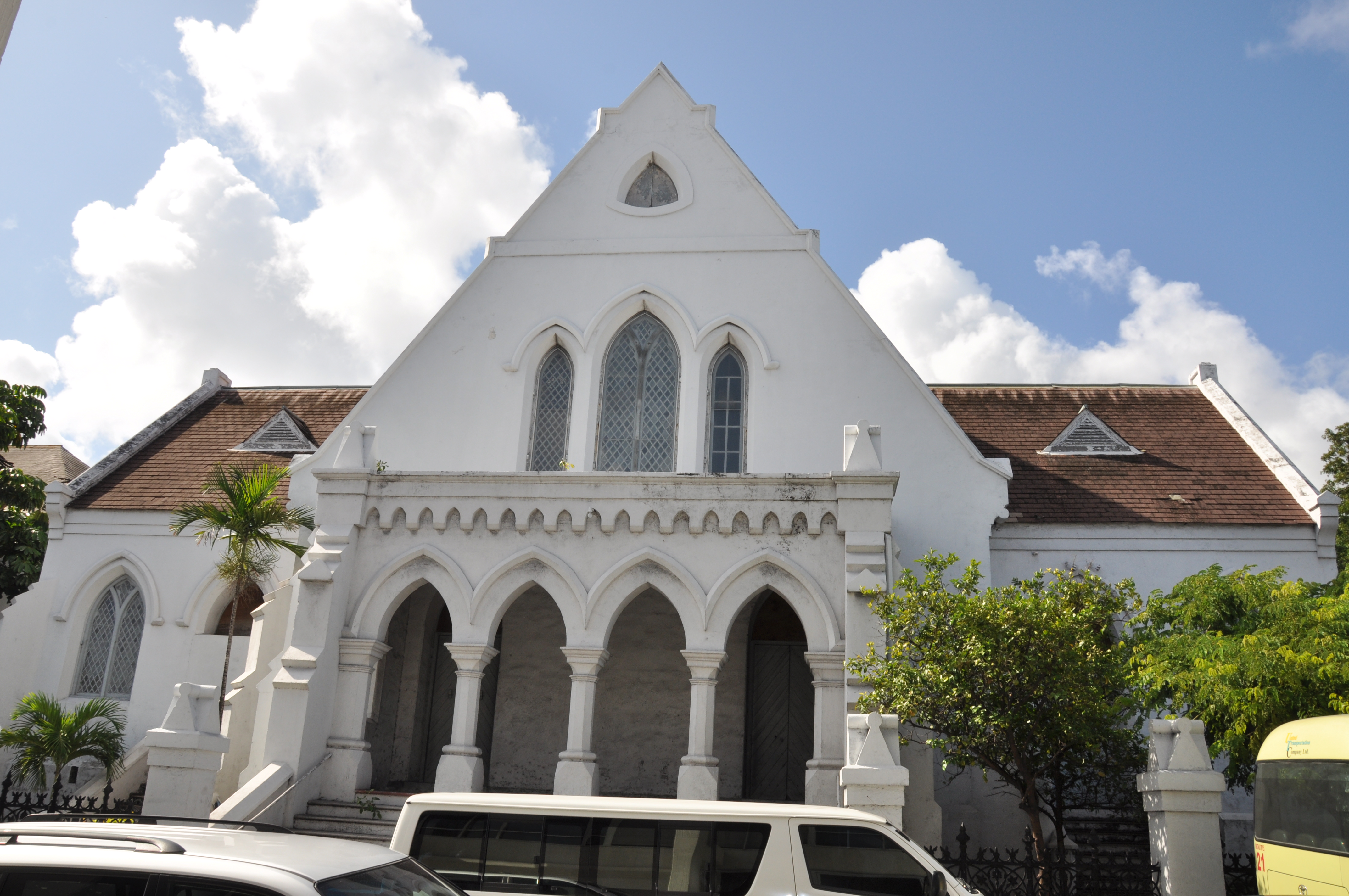 Church in Nassau, the Bahamas.